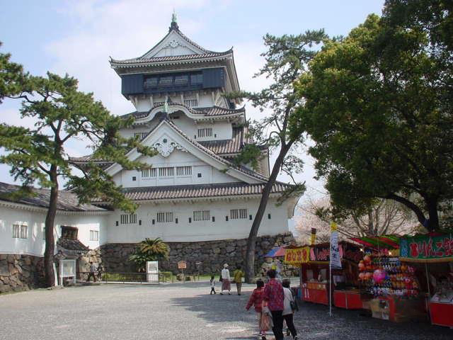 The keep or donjon (J: tenshukaku) of Kokura castle Photograph © Ian Ruxton, 27 March 2002.